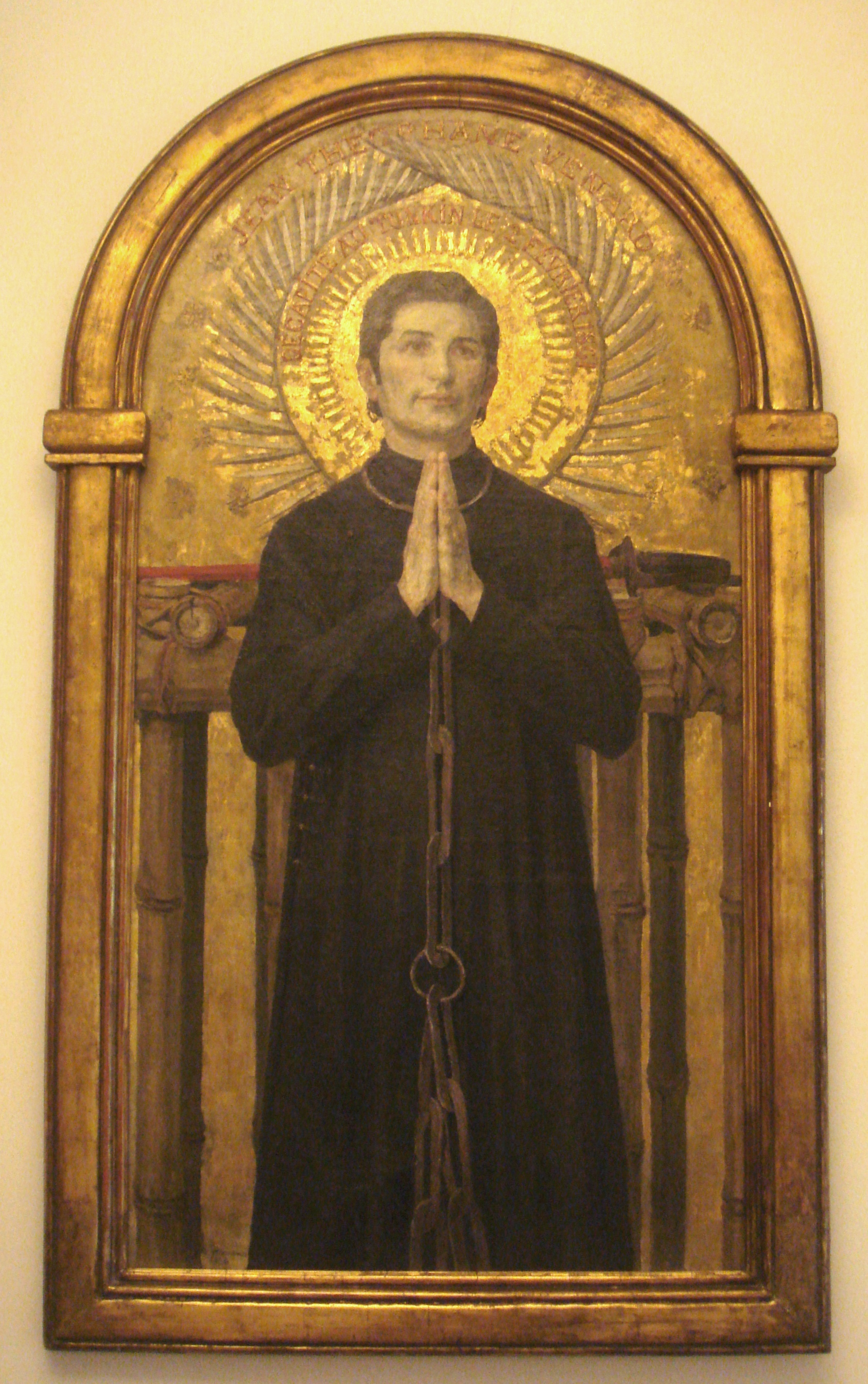 Jean-Theophane_Venard